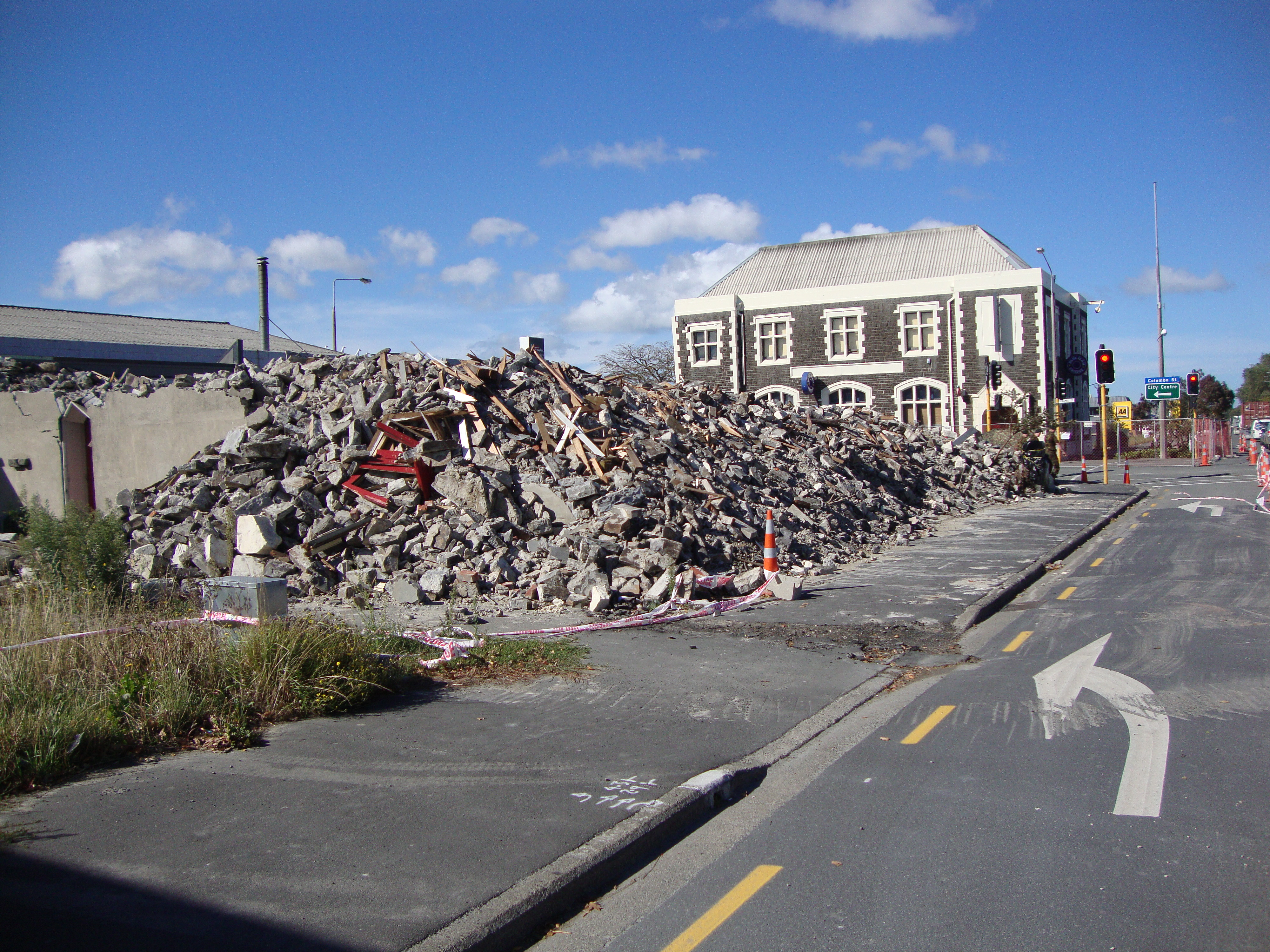 The leftovers of the Sydenham Heritage Church.